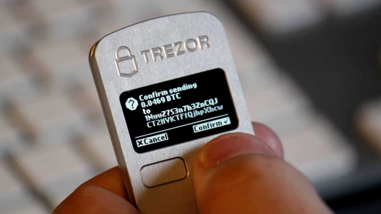 Ladislav Mecir